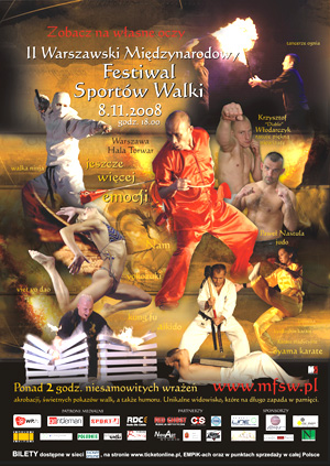 Ninja4